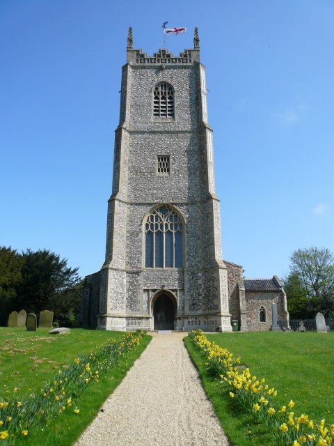 Church The Holy Innocents Church, Foulsham, Norfolk